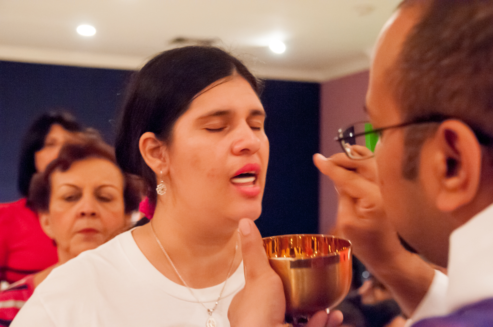 Communion in HEP (Hospital de Especialidades Pediatricas)